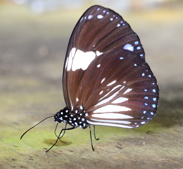 Magpie crow butterfly - Euploea radamanthus - Fraser's Hill, Malaysia